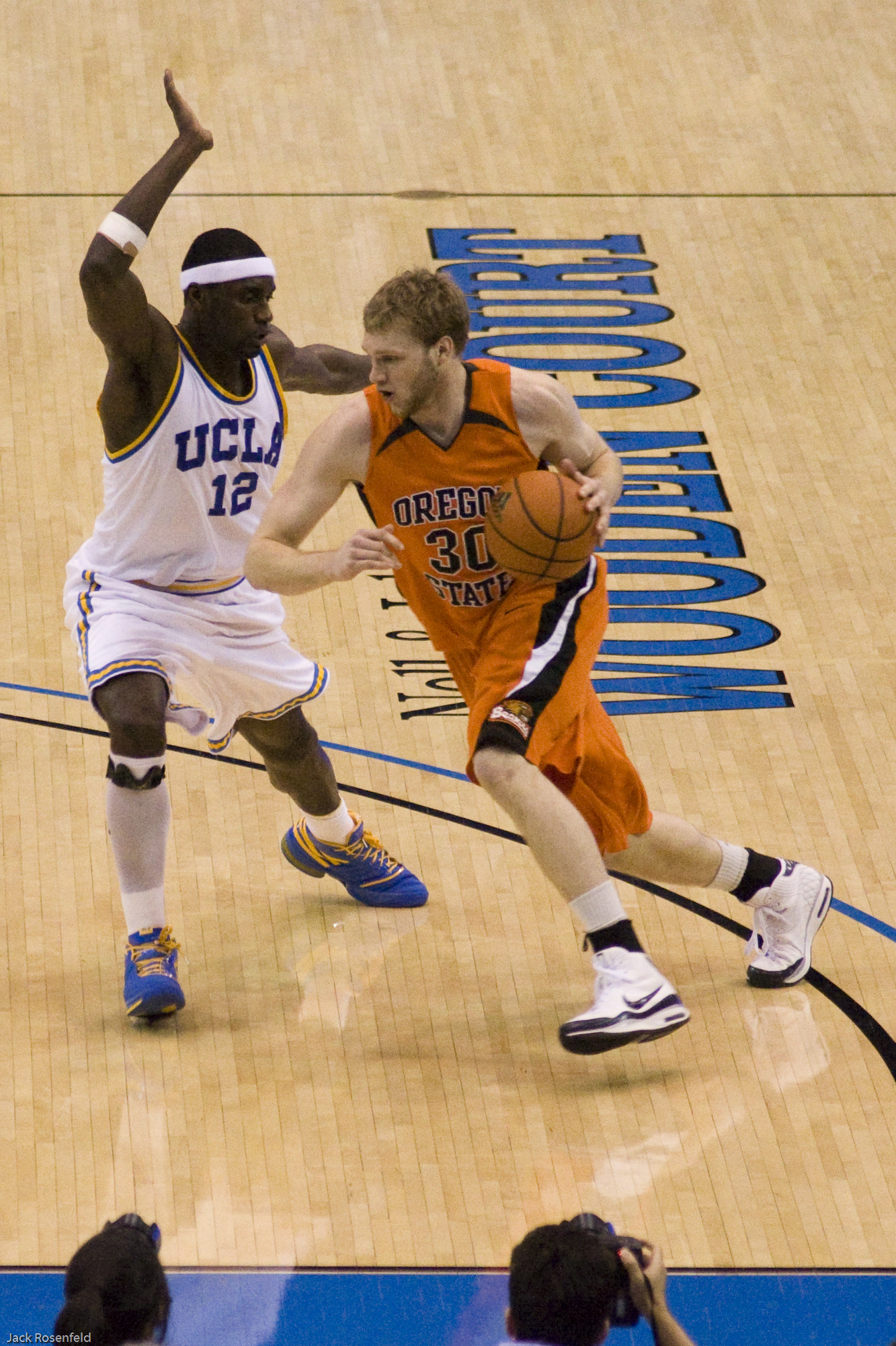 Alfred Aboya of UCLA defends against Oregon State.